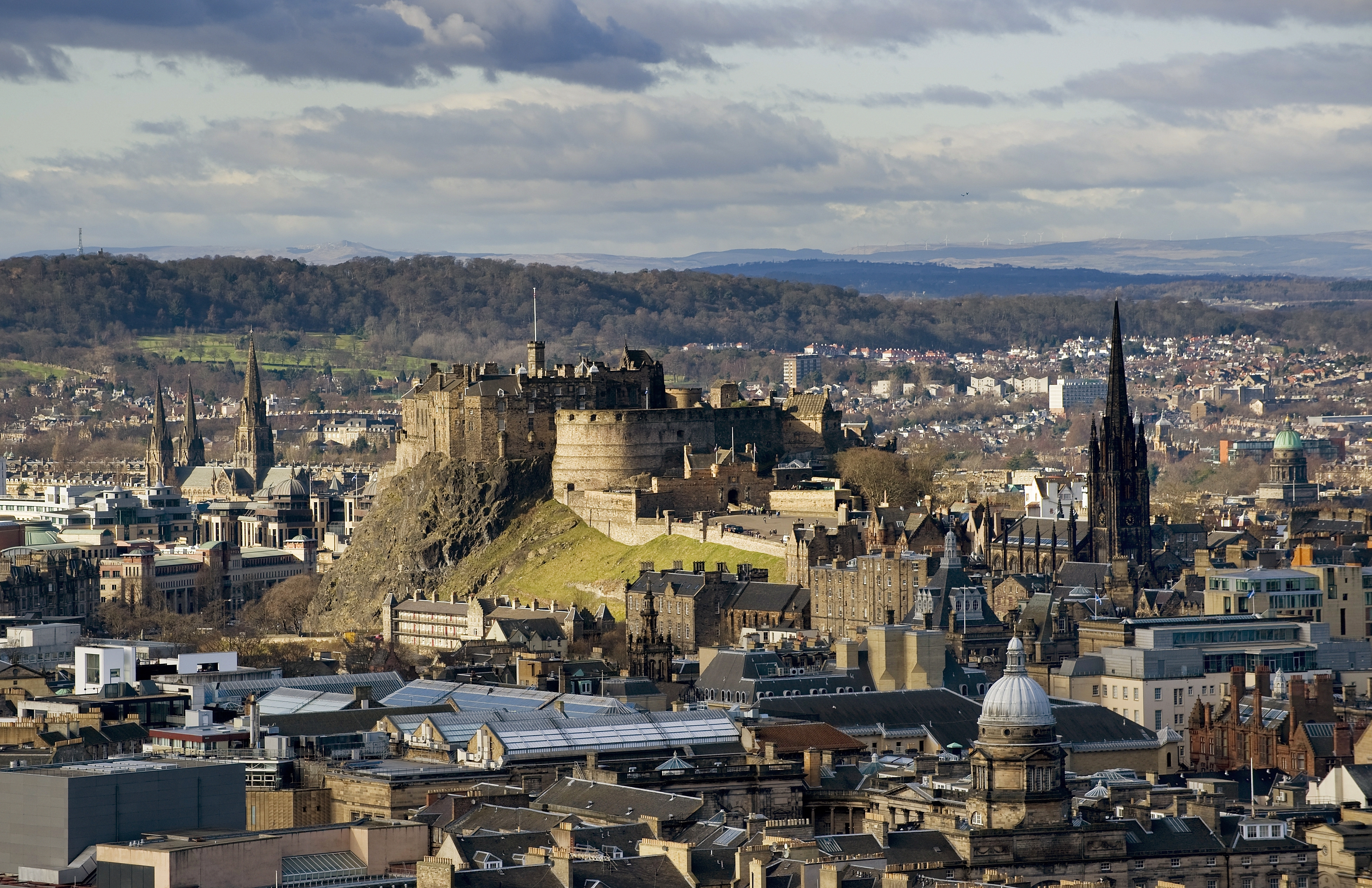 Edinburgh Castle as taken from the Salisbury Crags.